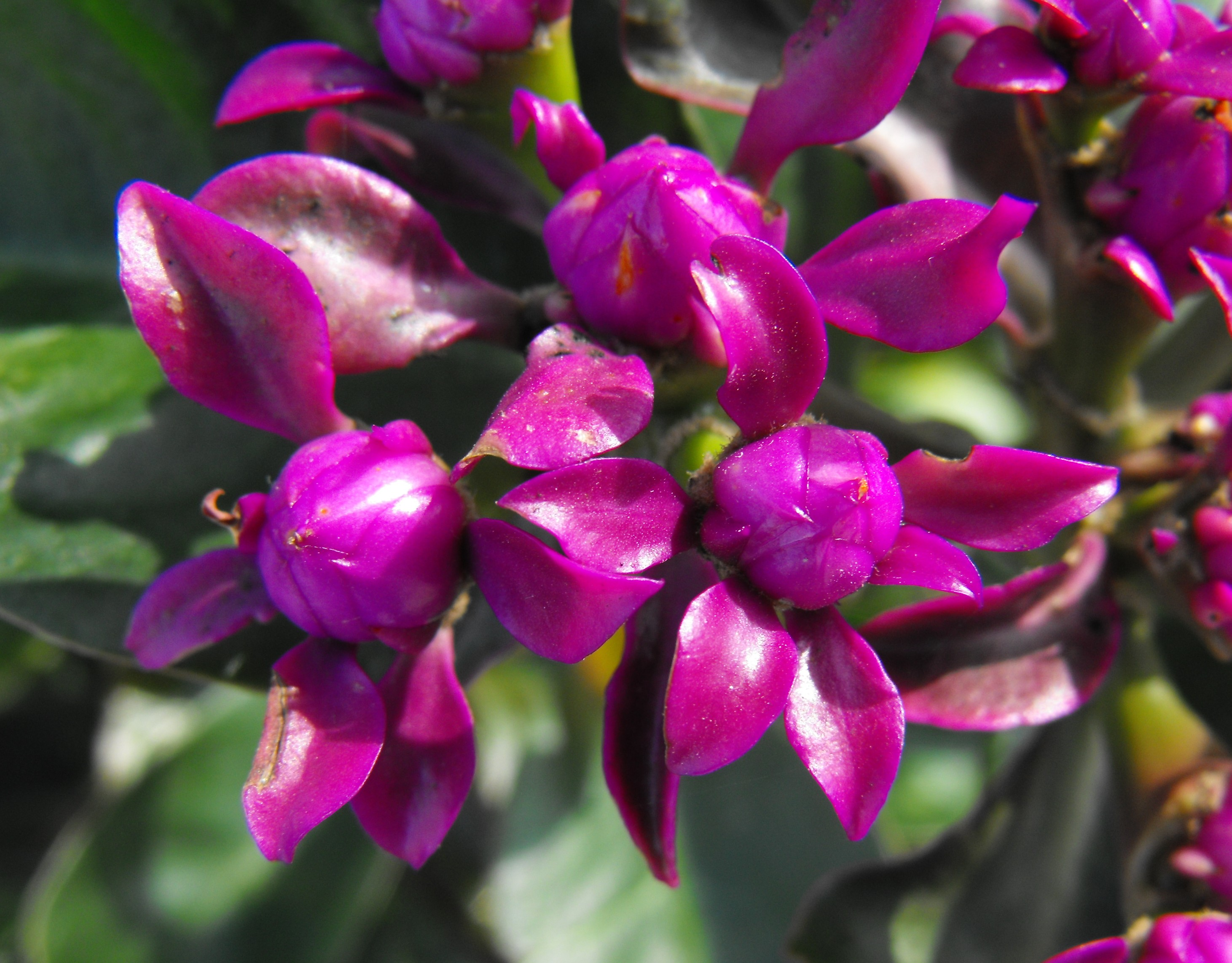 Pereskia grandifolia var. violacea at the San Diego Home & Garden Show, Del Mar, California, USA. Identified by exhibitor's sign.